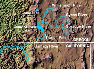 Sprague River of southeastern Oregon Tributary of the Klamath River..